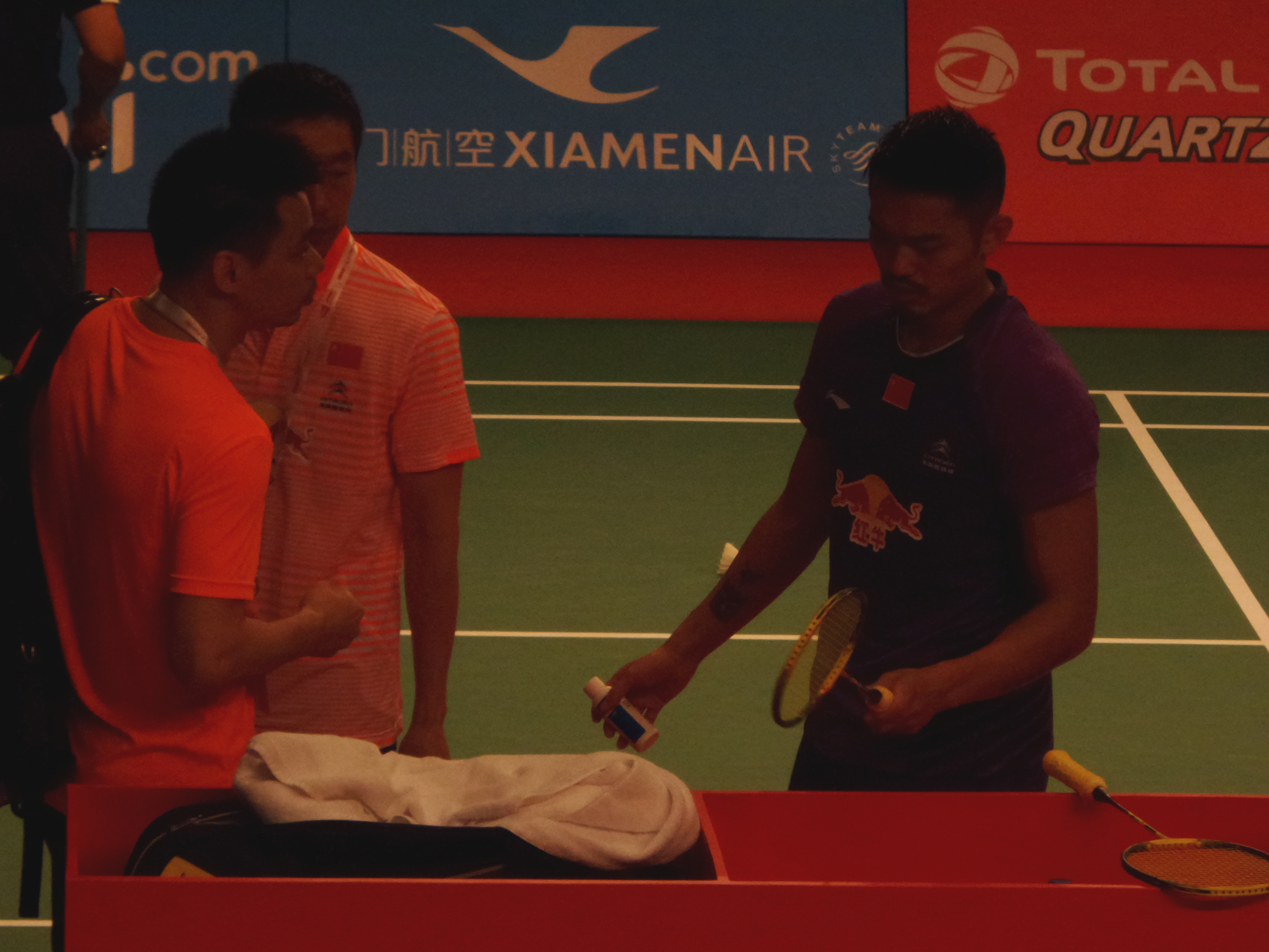 Lin Dan receiving instructions from coaches during a match in BWF World Championships 2015